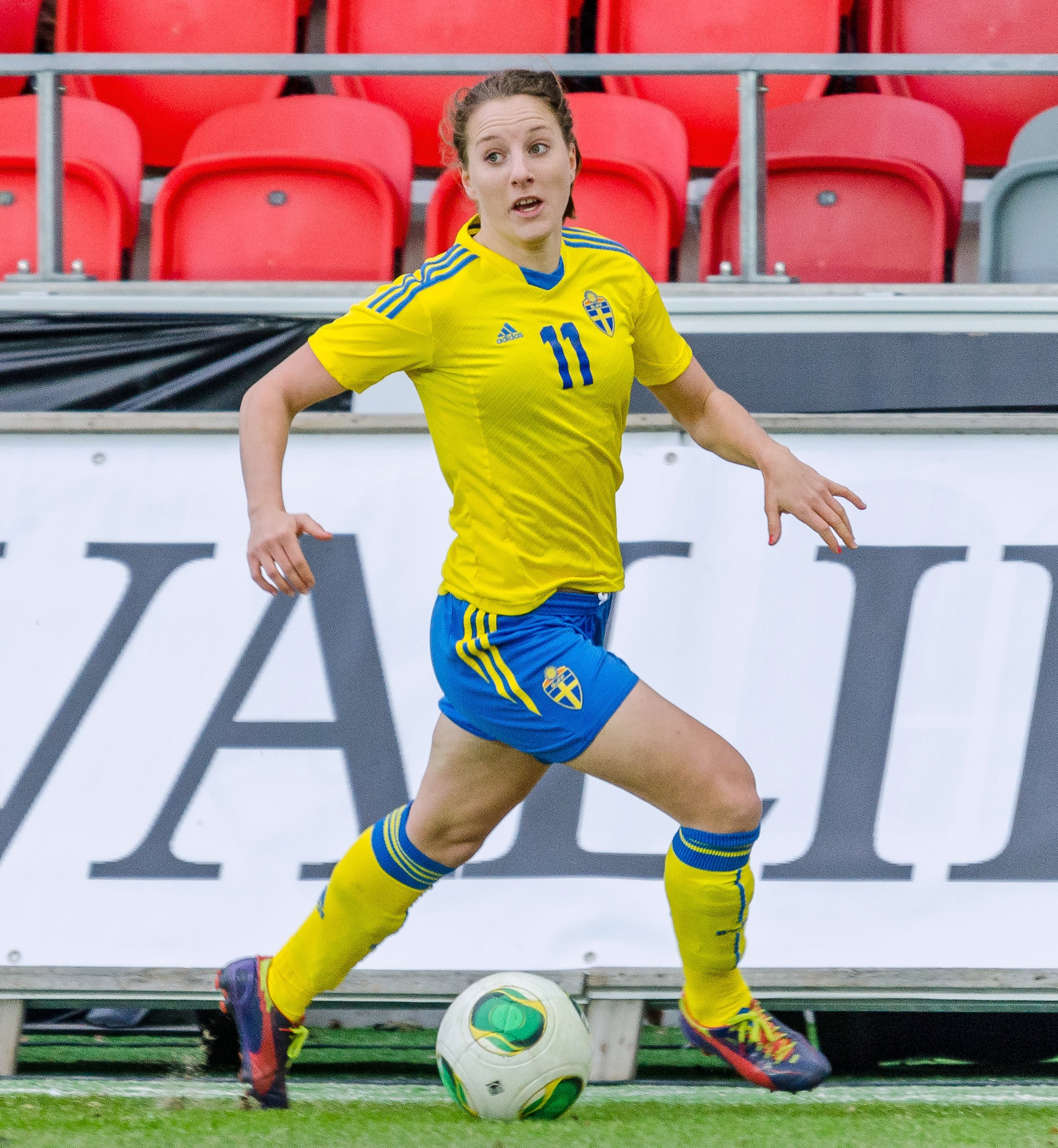 Swedish left winger Antonia Göransson playing for the Swedish Women's National team in the 2-0 victory over Iceland at Myresjöhus Arena, 6 April 2013.